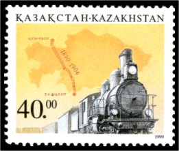 Stamp of Kazakhstan